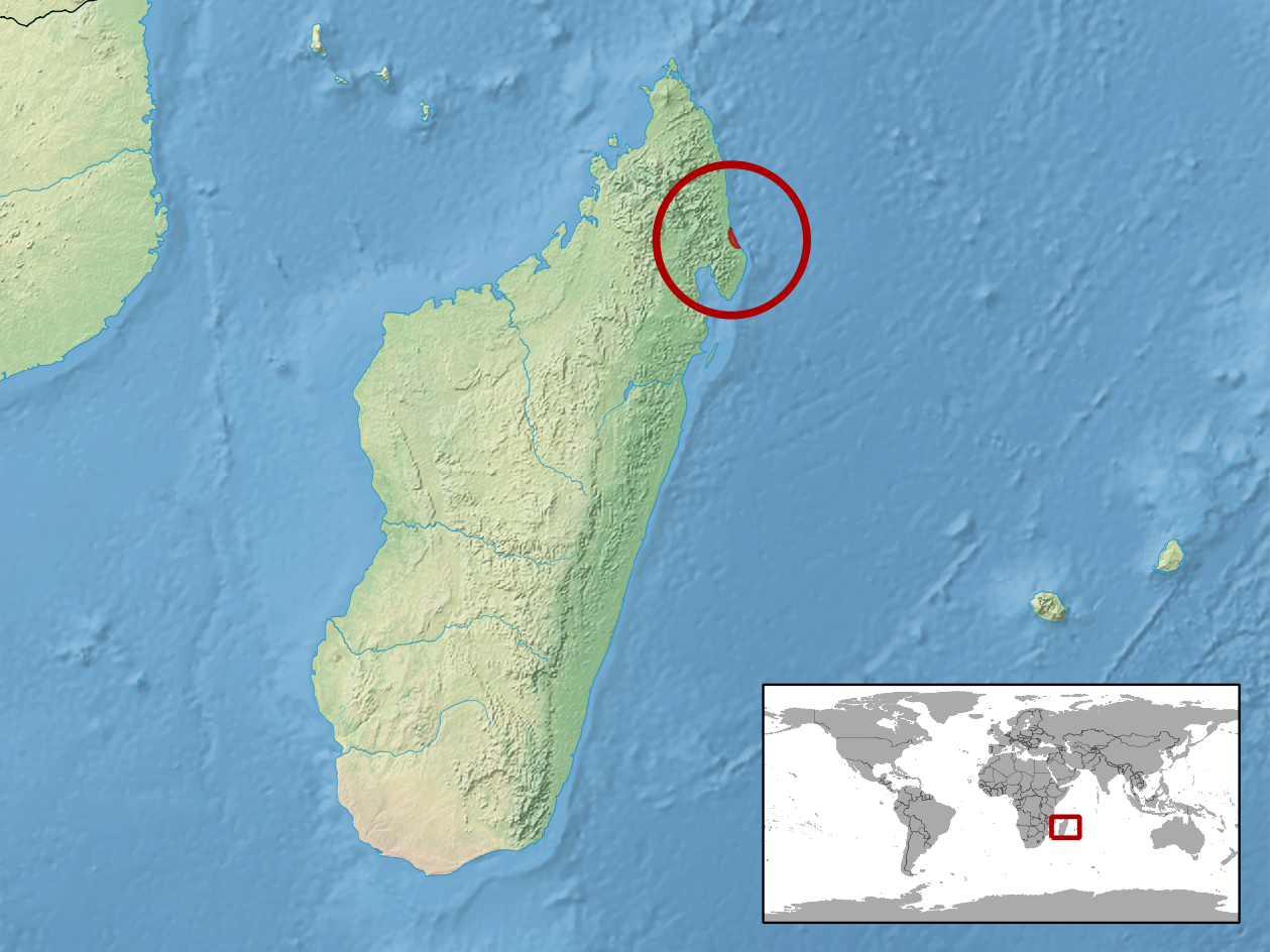 geographic distribution of Phelsuma masohoala (Native: Madagascar)